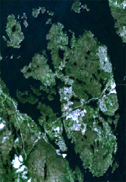 Satellite image of the islands of Litlesotra (far right) and Bildøy (center) and part of Sotre Sotra (far left) in Fjell municipality, Hordaland, Norway.